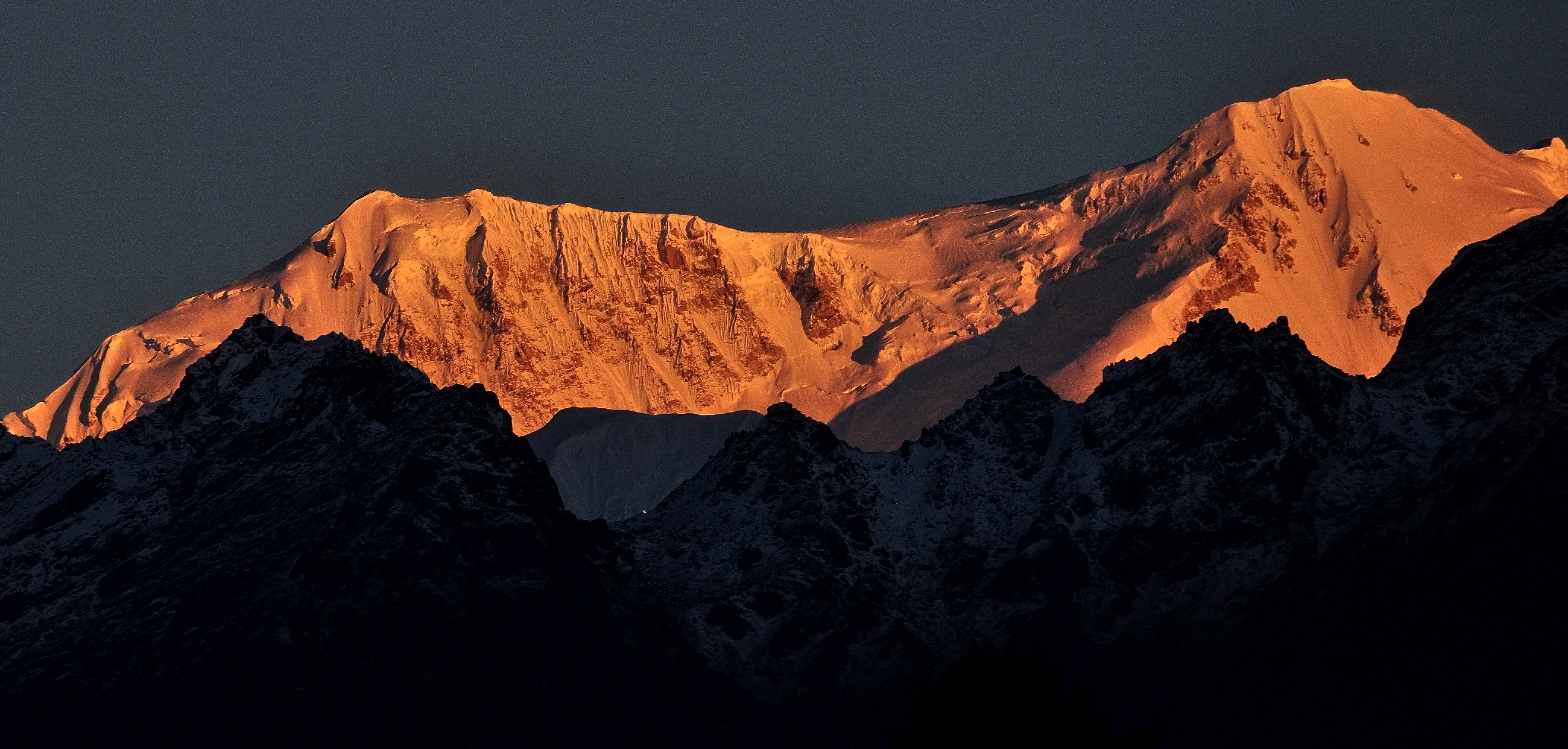 First Sunlight of the Day over Mount Kabru, (Eastern side of Himalaya) clicked from Ravangla (Rabong), Sikkim Sunrise, Nature scenes of Himalayas India 2013